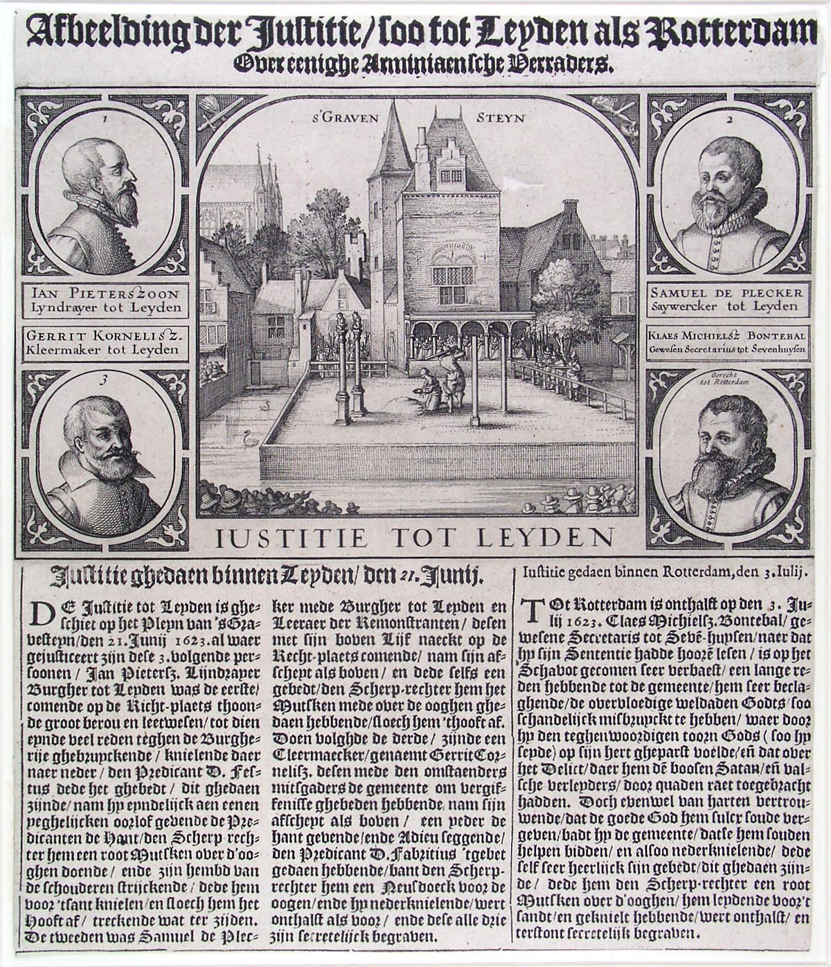 Execution of the perpetrators of the assassination attempt on Maurice of Orange. Etching and paper. 131 × 230 mm. Rotterdam, Prentenkabinet Museum Boijmans Van Beuningen (inv.no. BdH 12729 (PK)).